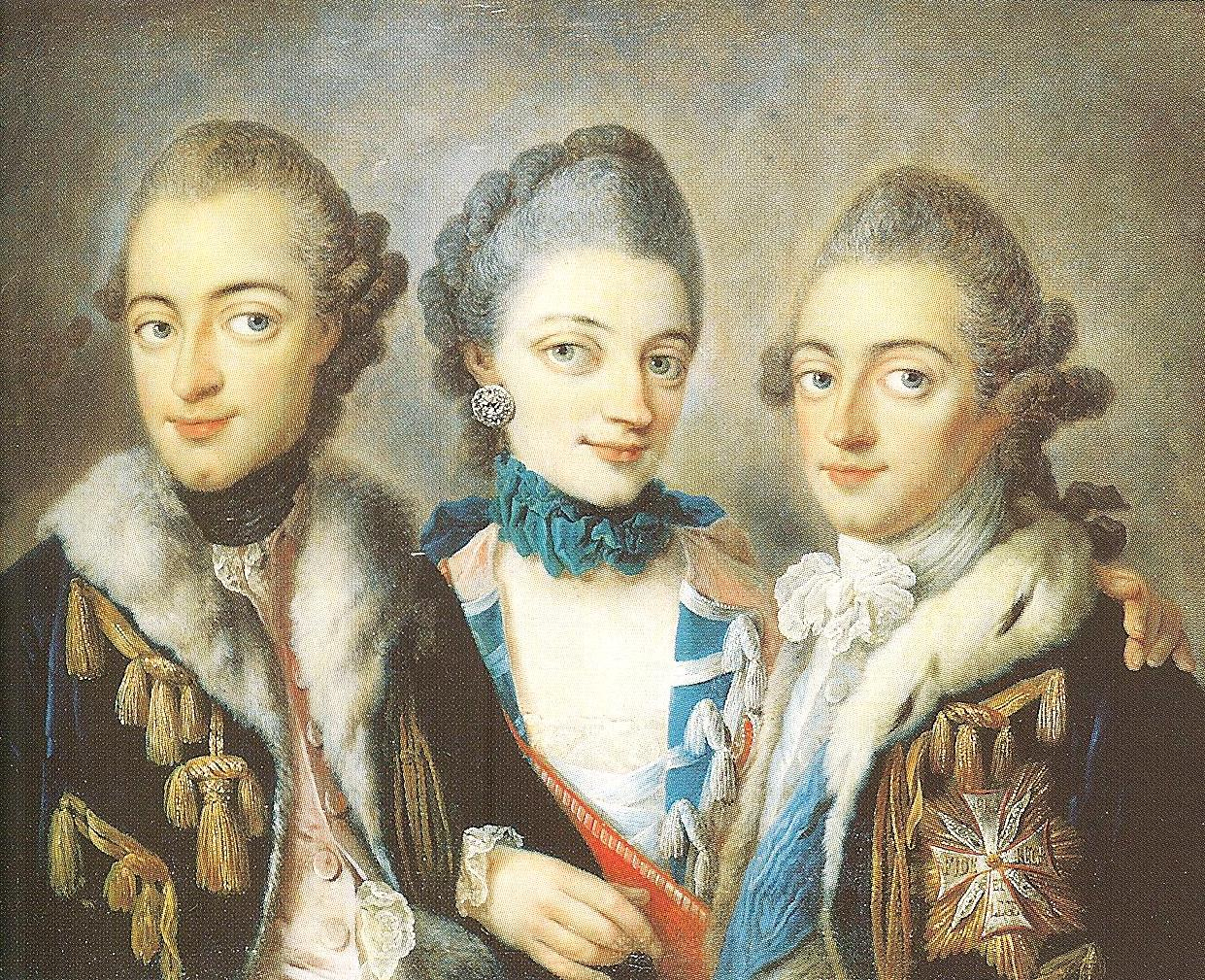 Herzog Adolf Friedrich IV. und seine Geschwister, showing Adolf Friedrich IV of Mecklenburg-Strelitz (right), his older sister Duchess Christiane (center) and his brother Duke Ernst, probably by Danile Woge, Neustrelitz c. 1760.